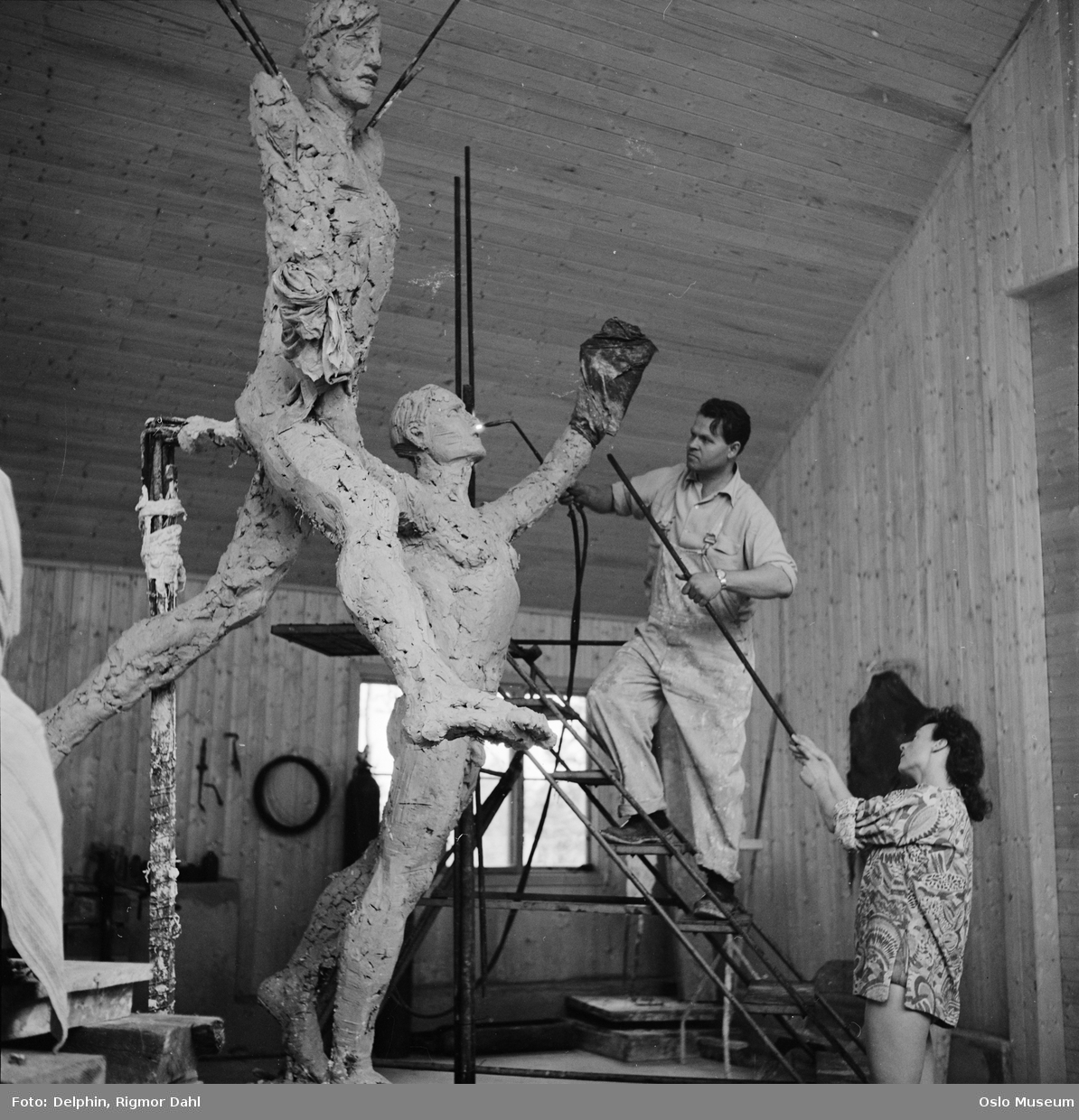 Norwegian sculptor Arnold Haukeland (1920-1983) at home in studio in Bærum, Norway 1956, while working on "Ballspillergruppe" ("ball players") together with his wife and assistant Randi Haukeland.